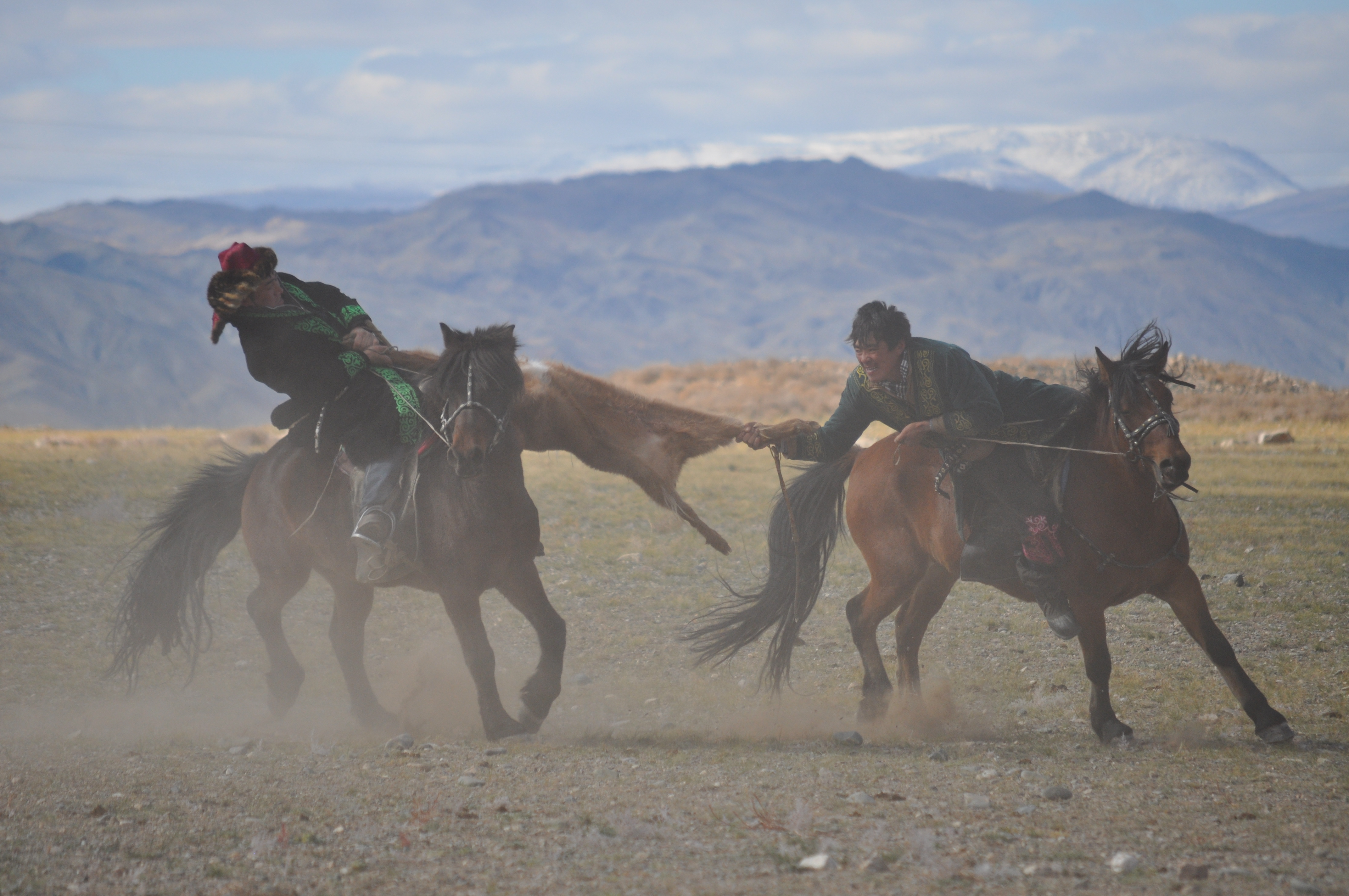 Traditional Kazakh game of Kokpar, fighting over a goat carcass at the Kazakh Altai Eagle Festival in Sagsai, Bayan-Olgii, Mongolia.